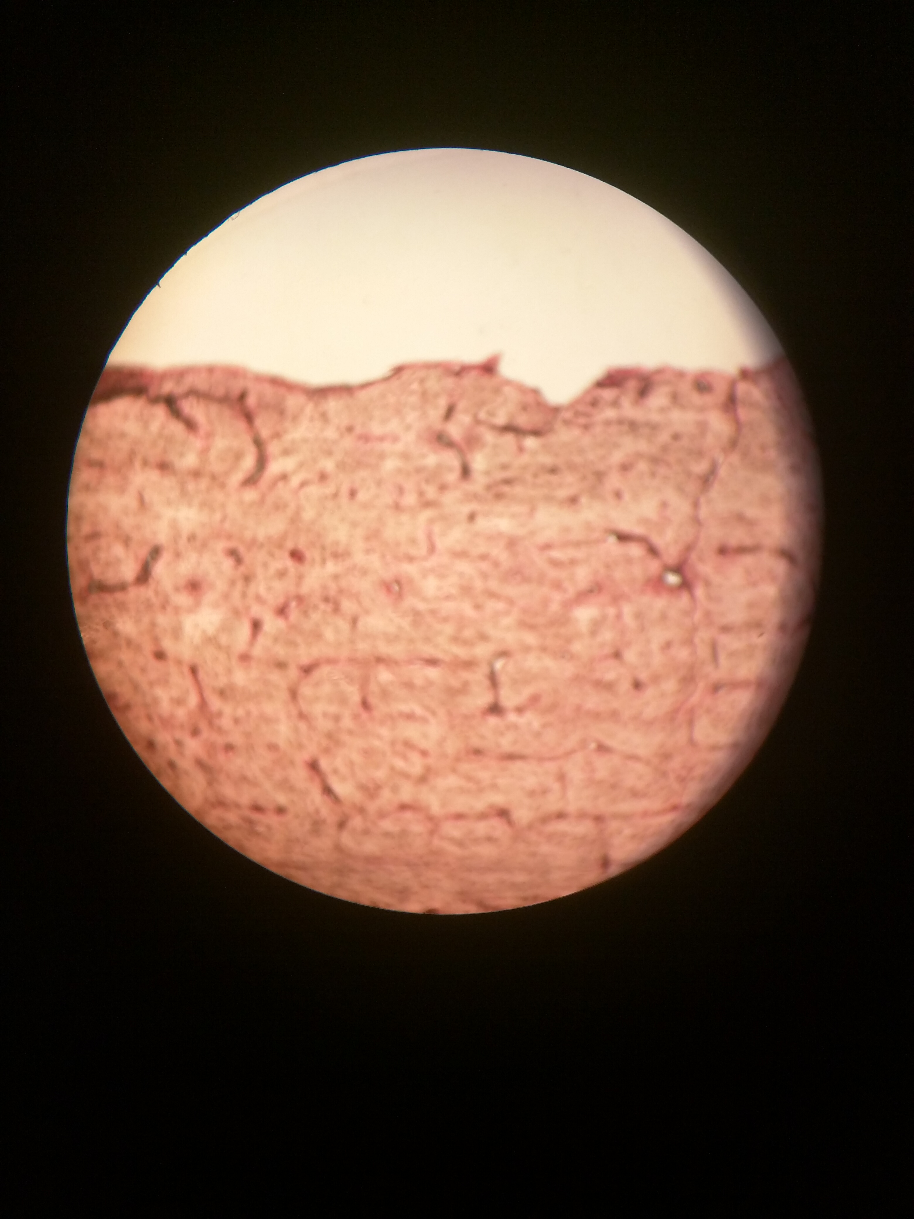 Bone histology